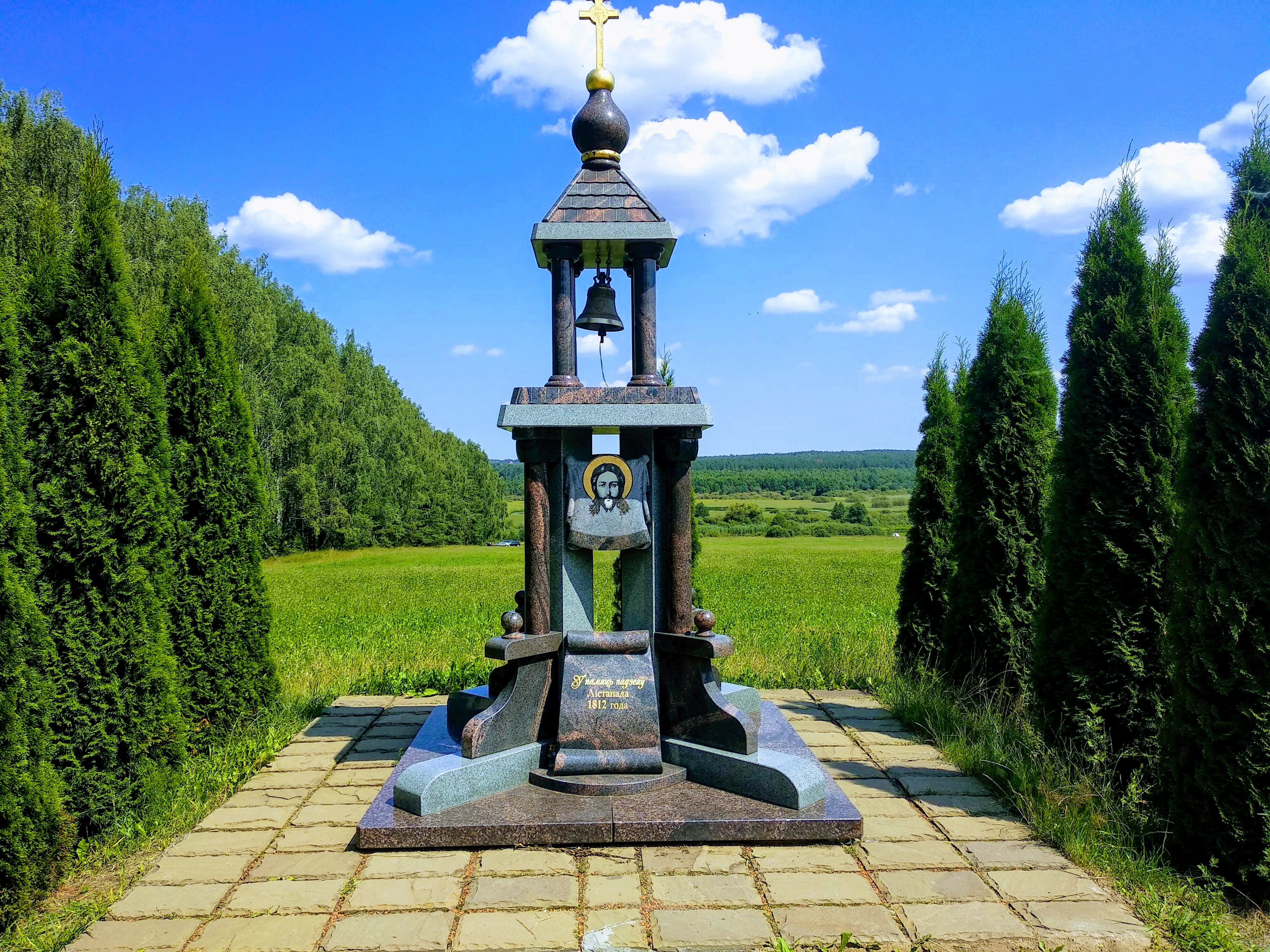 Belarusian Monument at Bryliouskaye Polie